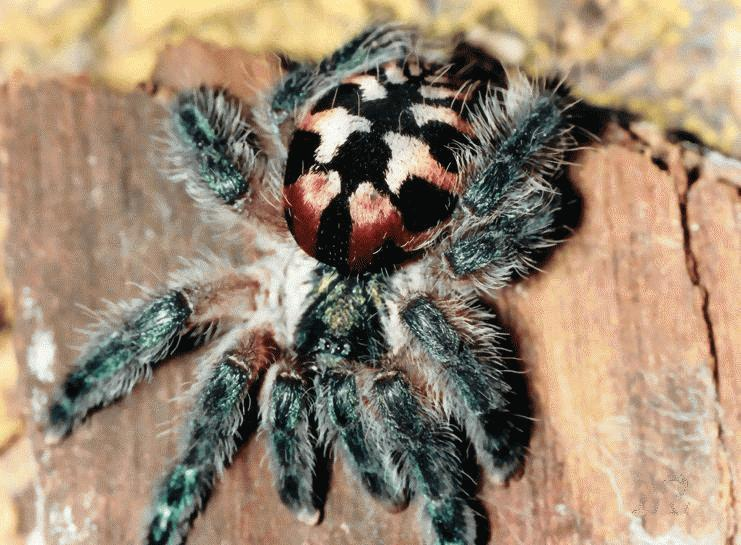 ZooKeys - Typhochlaena seladonia (female) Cut-out from original (Typhochlaena spp. - ZooKeys-230-001-g004.jpeg) shown below